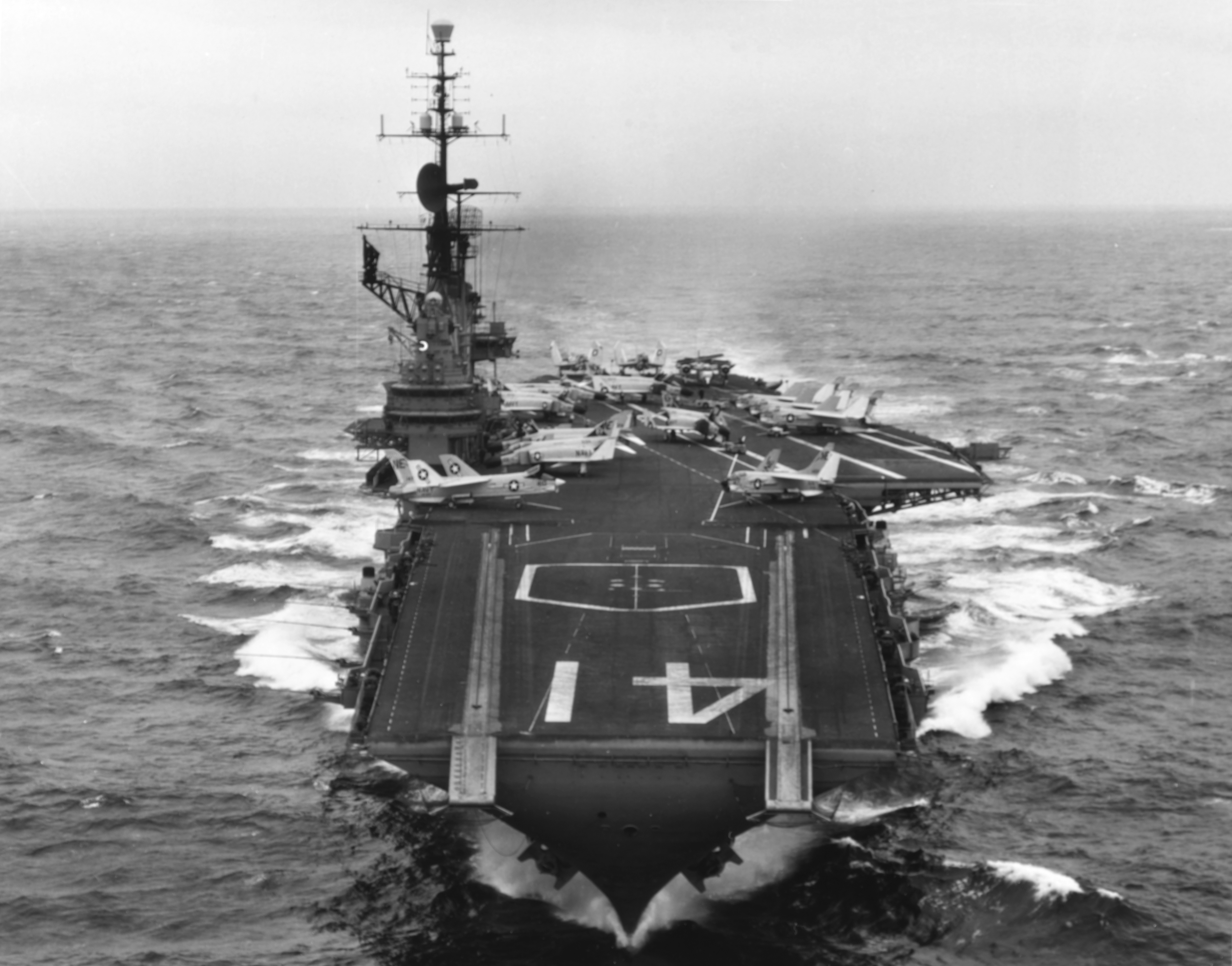 The U.S. Navy aircraft carrier USS Midway (CVA-41) underway on 20 June 1963, with McDonnell F-3B Demon, McDonnell F-4B Phantom II and Vought F-8C Crusader jet fighters on her flight deck. The two Crusaders parked furthest forward are from Fighter Squadron 24 (VF-24).